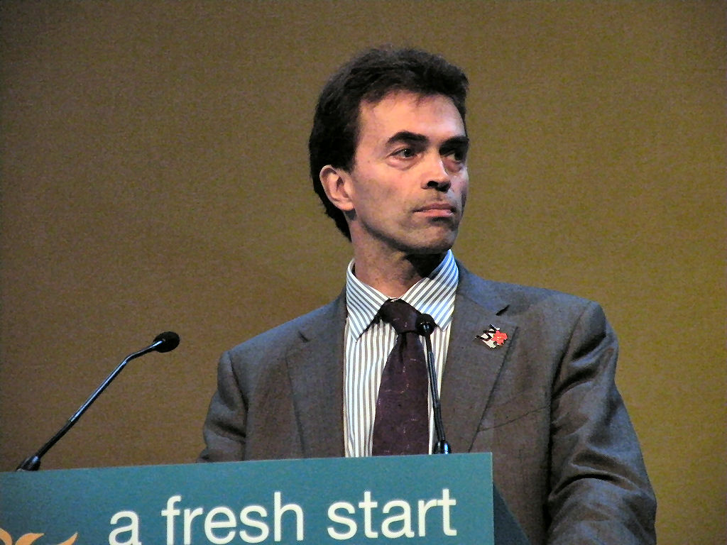 Tom Brake MP addressing a Liberal Democrat conference in the Bournemouth International Centre